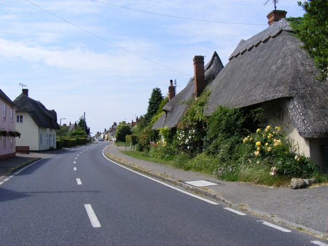 The B184 through High Roding, Essex High Roding, Pretty village situated one third of the way along the ancient Roman road from London to Bury St Edmunds in Suffolk.